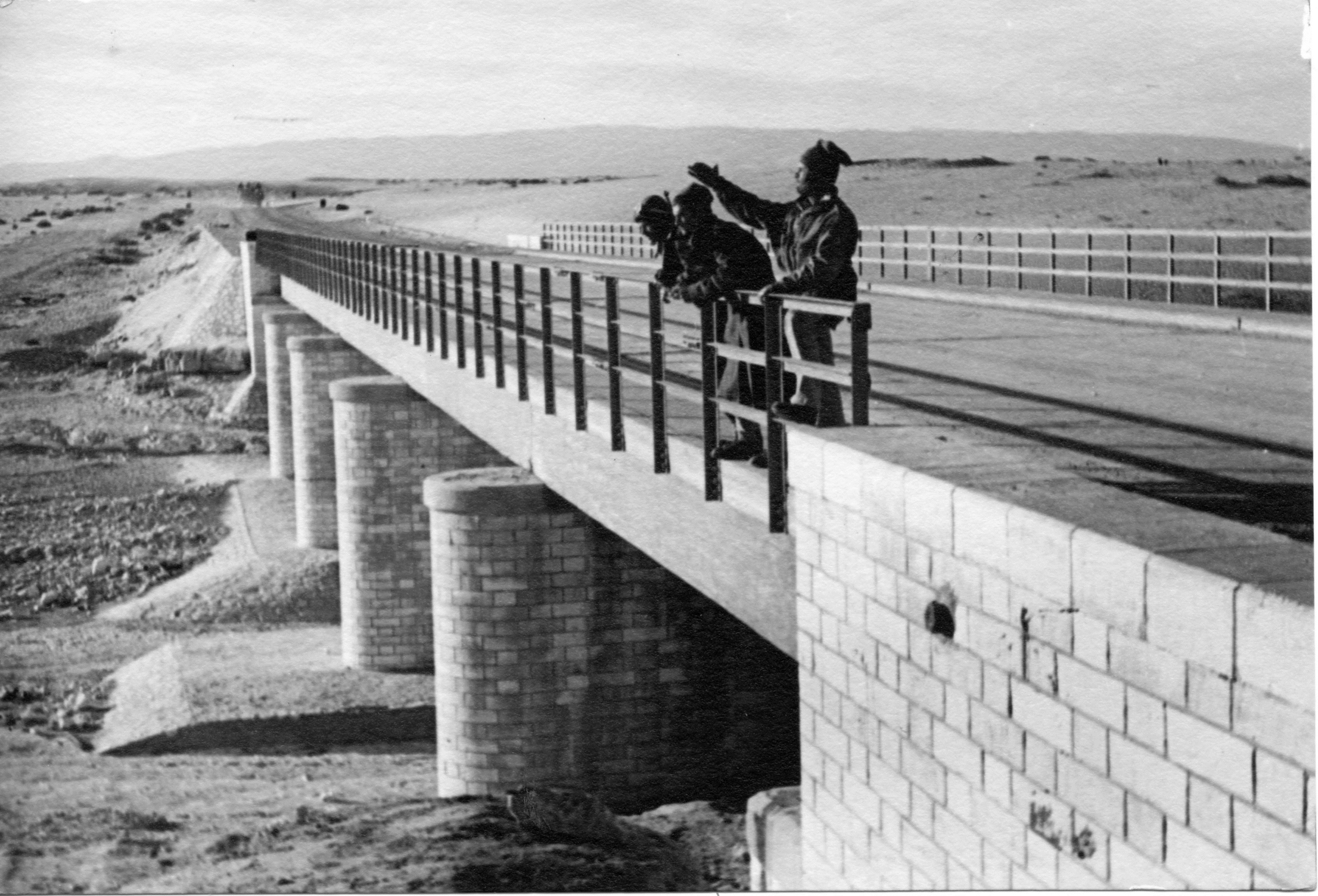 The Palmach, Israel Defense Forces